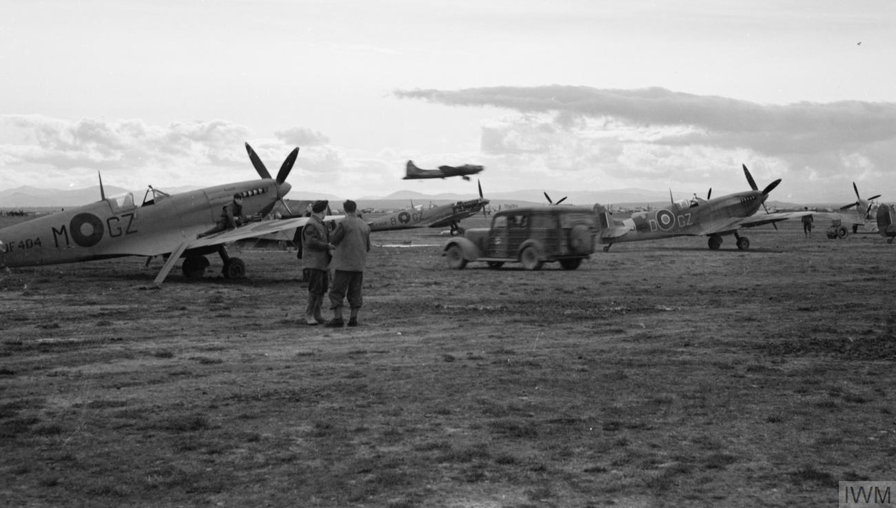 IWM caption : Supermarine Spitfires of No. 32 Squadron RAF undergoing maintenance in a dispersal area at Foggia Main, Italy, as a Boeing B-17F of the 15th USAAF takes off into the evening sky. Two of the Squadron's aircraft, HF Mark VIII, JF 404 'GZ-M', and HF Mark IX, MA619 'GZ-B', painted overall cerulean blue for high altitude offensive reconnaissances over the Dalmatian coast, are at left and centre, while standard camouflaged Mark IXs, such as MA802 'GZ-D', can be seen on the right.